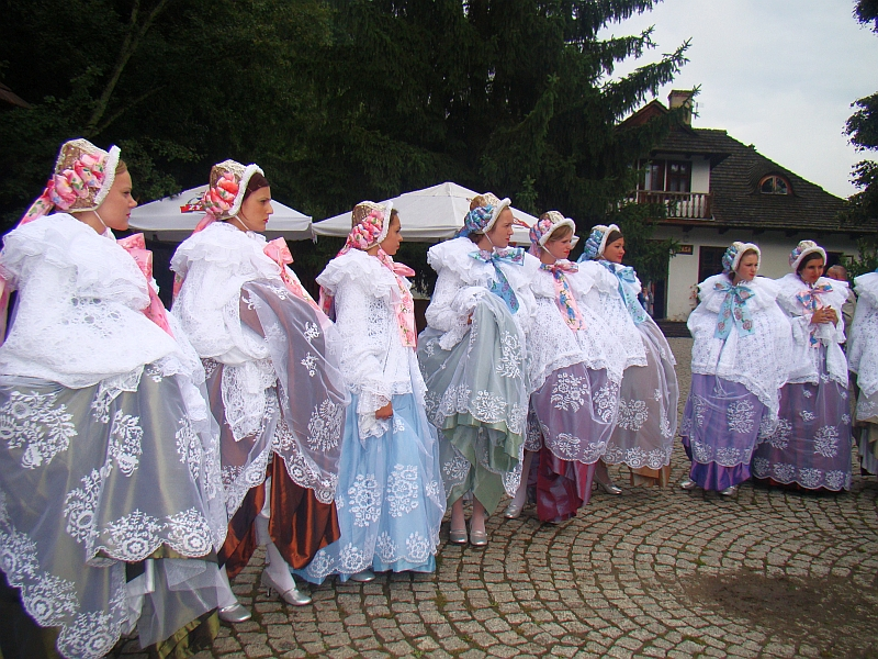 Folk dancers of Polish comunity from Hamilton (Canada)